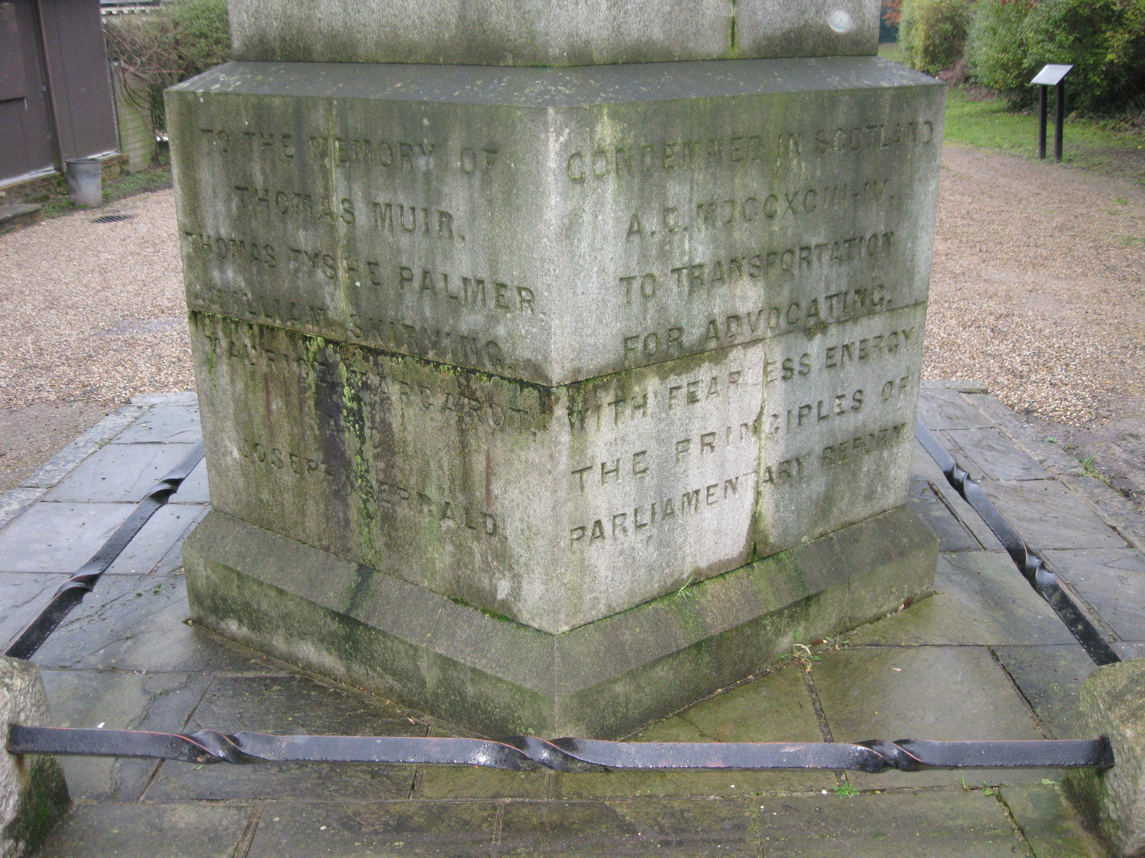 The base of the Scottish Martyrs Monument.